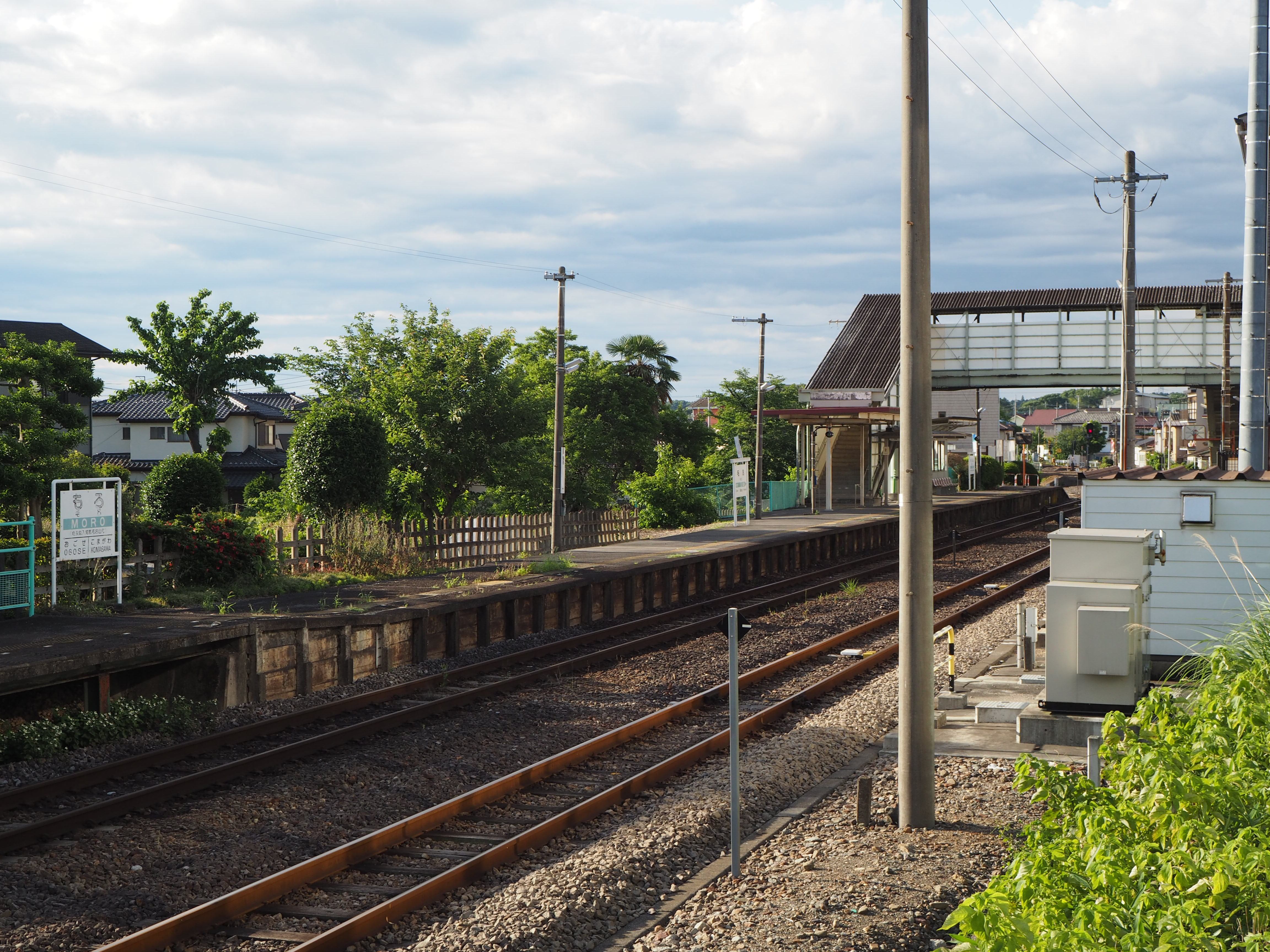 Platforms of Moro Station